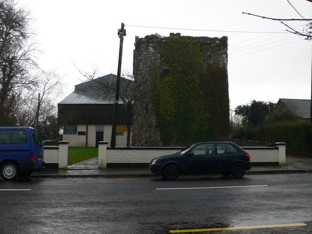 O'Grady's Tower House Near St Cronan's church in Tuamgraney.